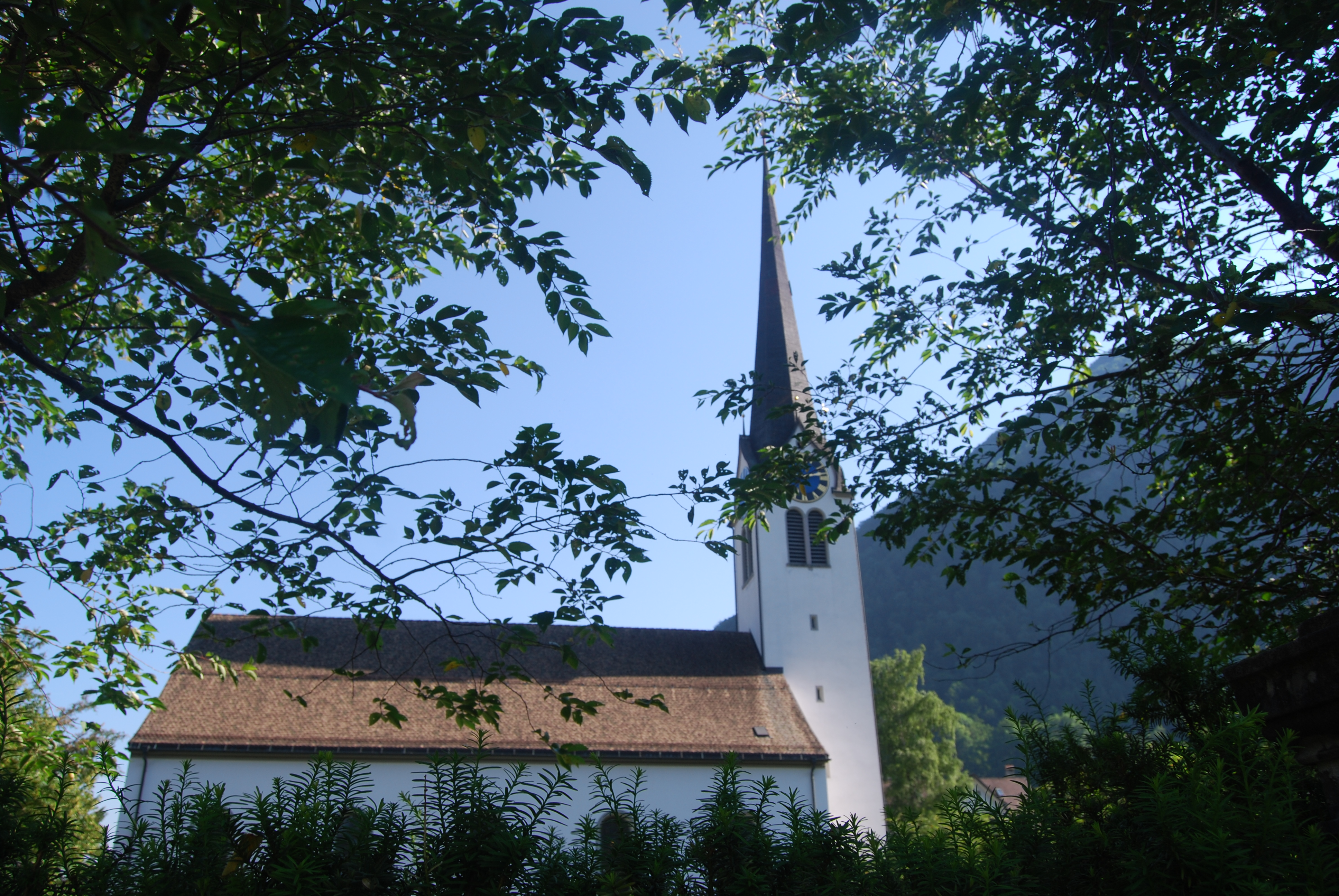 Protestant church of Mollis, canton of Glarus, SwitzerlandEsperanto: Protestanta preĝejo de Mollis, Kantono Glaruso, Svislando